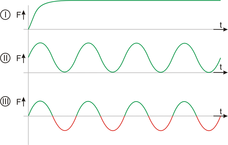 Different Stress-Types